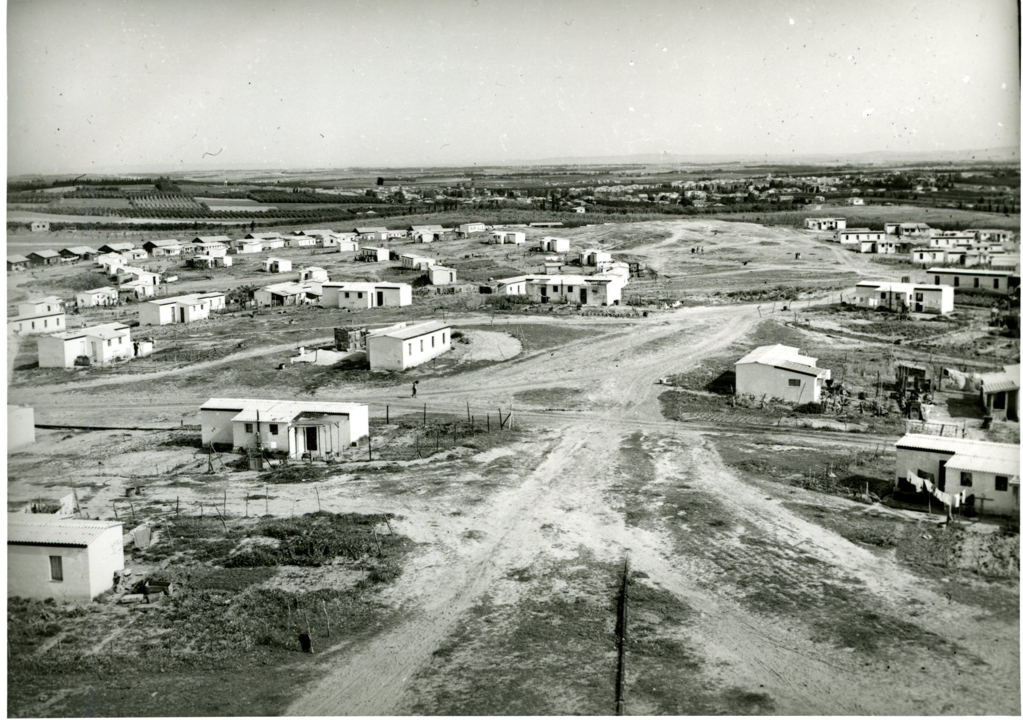 Neve Amal neighborhood in Herzliya